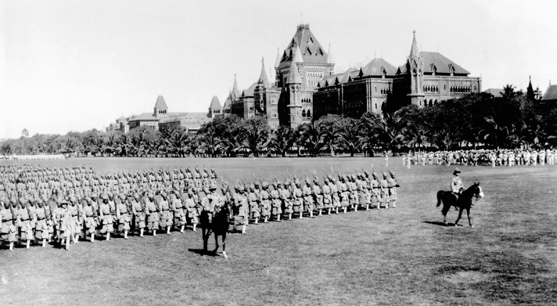 127th (Queen Mary’s Own) Baluch Light Infantry (now 10 Baloch, Pakistan Army) on parade, Bombay 1911.